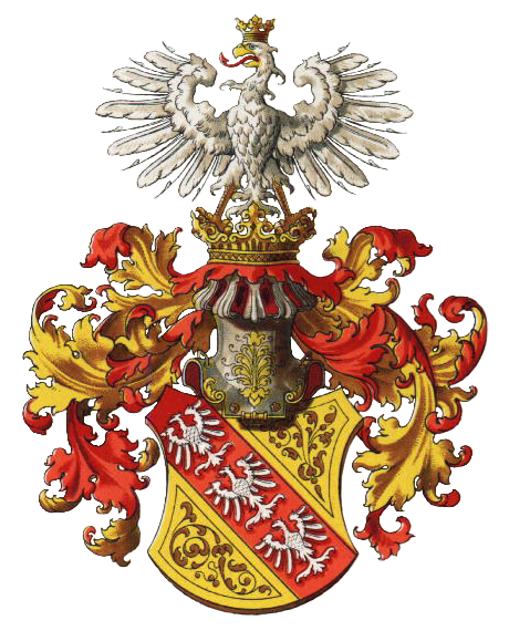 The heraldic achievement of the House of Lorraine.